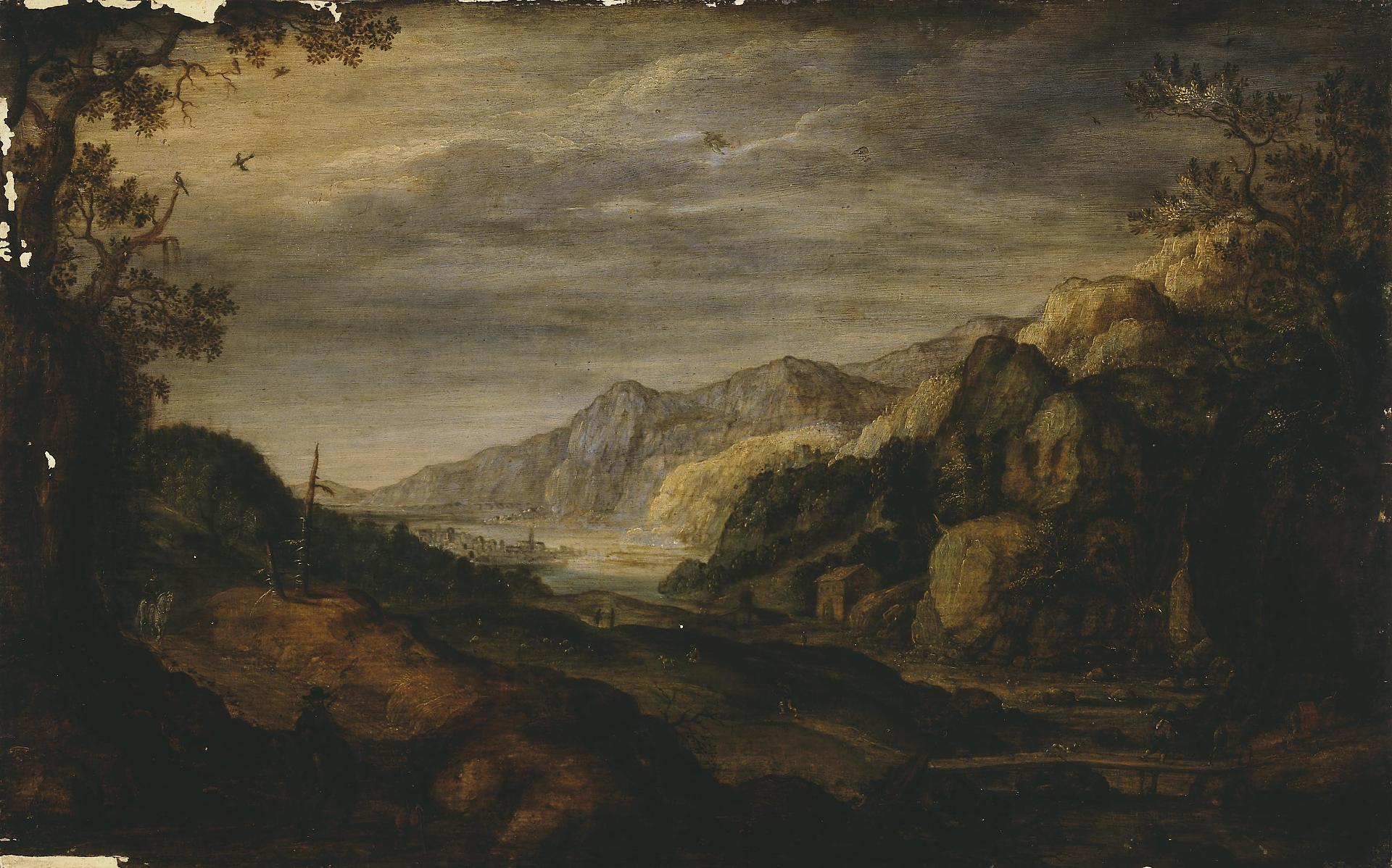 Mountanous Landscape Hermitage Museum Native nameГосударственный ЭрмитажLocationSaint PetersburgCoordinates59° 56′ 26″ N, 30° 18′ 49″ E Established1764Web pagehermitagemuseum.orgAuthority control : Q132783 VIAF: 128956287 ISNI: 0000 0001 2285 6617 LCCN: n79100241 NLA: 35139924 GND: 2124053-X WorldCat institution QS:P195,Q132783